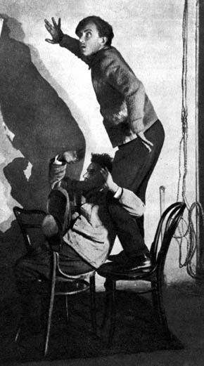 Erast Garin as Khlestakov and Vsevolod Meyerhold on the rehearsal of Revizor